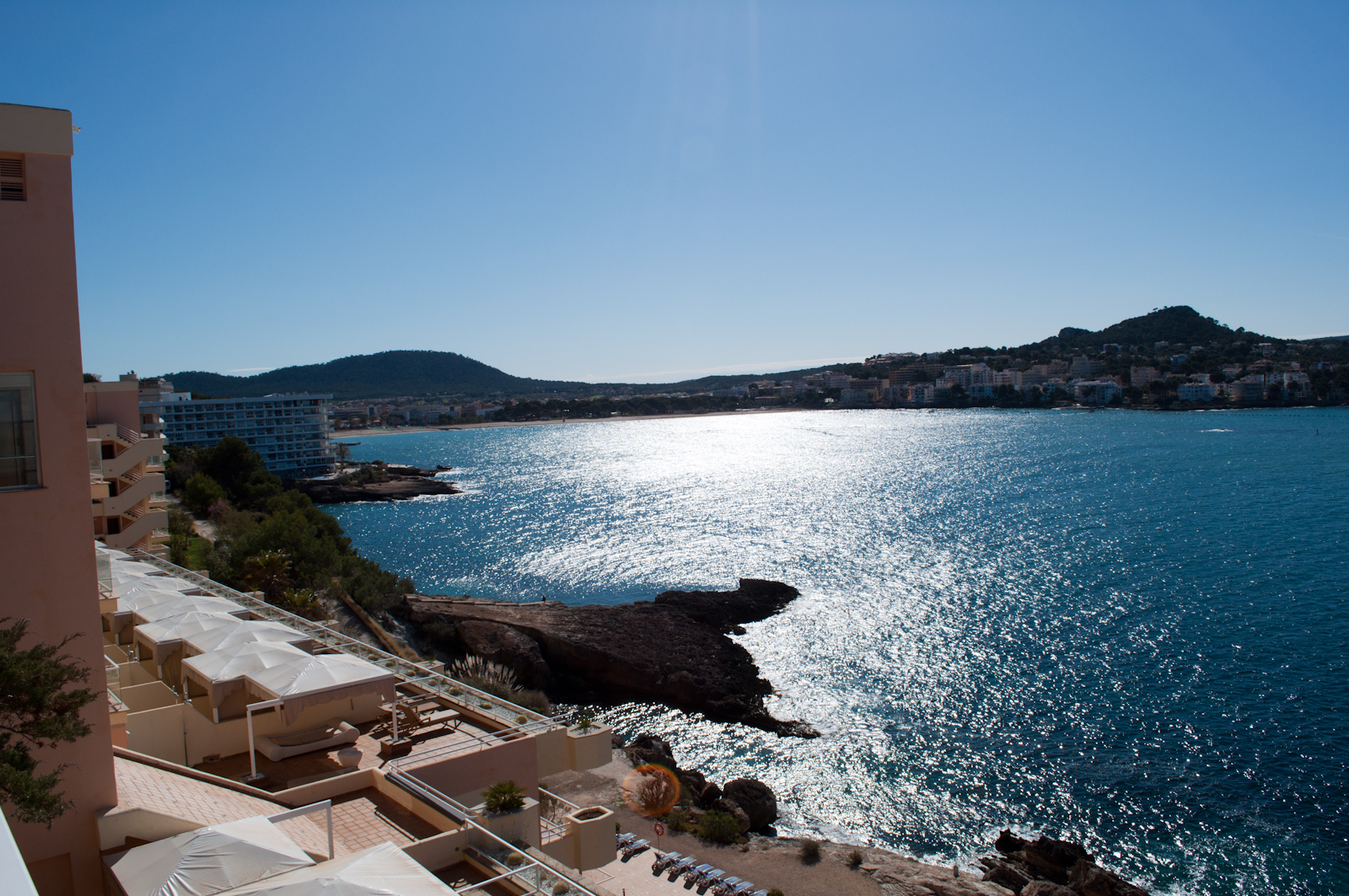 Bay of Santa Ponsa